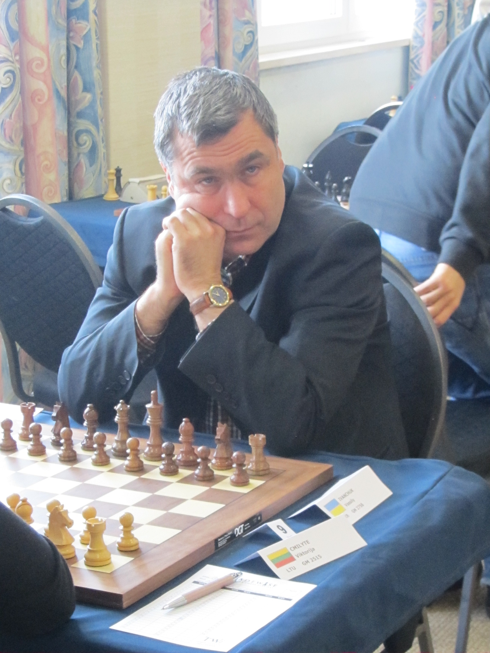 Vassily Ivanchuk The highest-ranked player in the tournament at the Caleta Hotel in Gibraltar in 2013